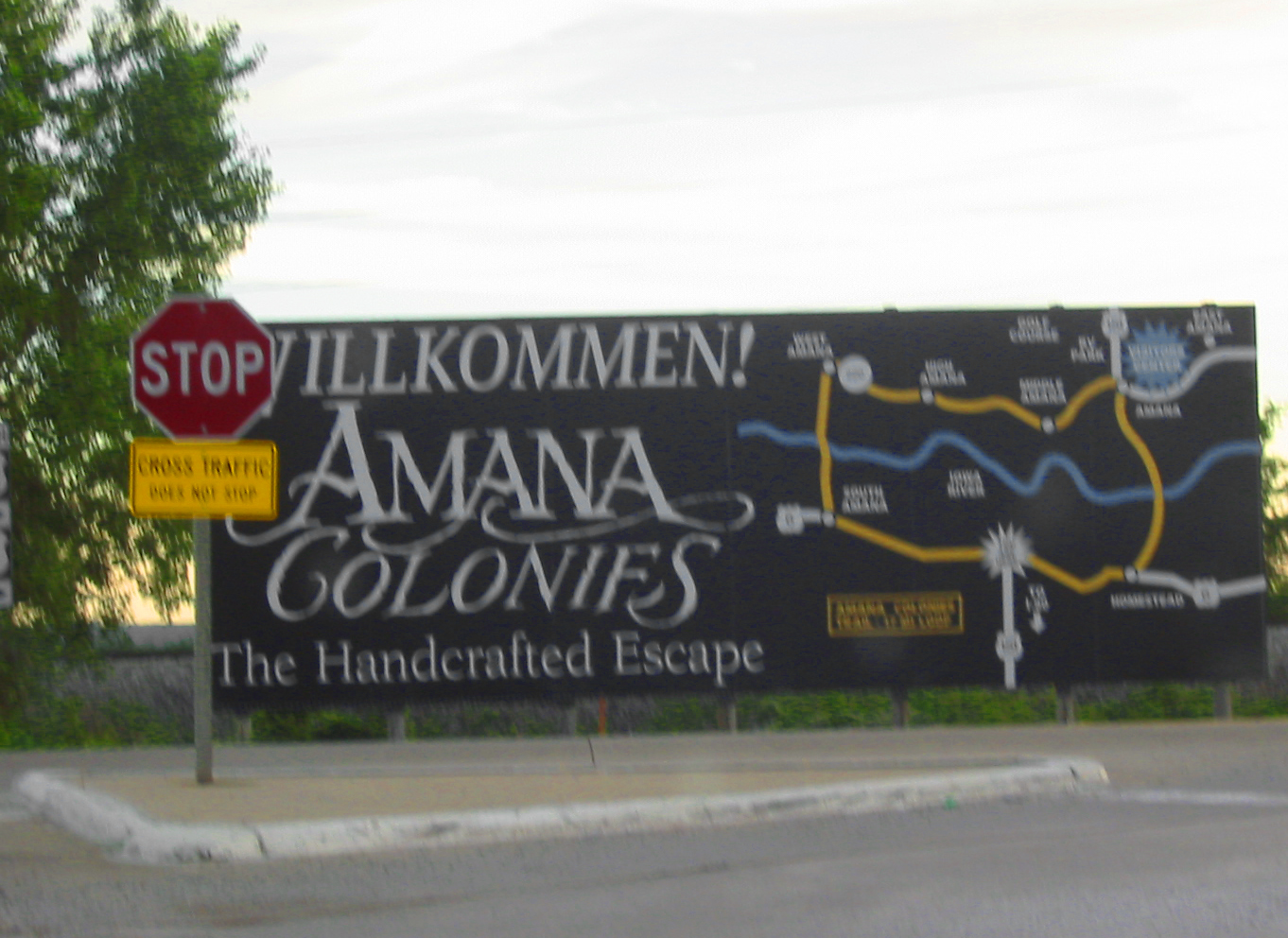 "Willkommen" sign in crossroads leading to Amana Colonies, Iowa. Photo by Asteriontalk 00:11, 6 July 2007 (UTC)